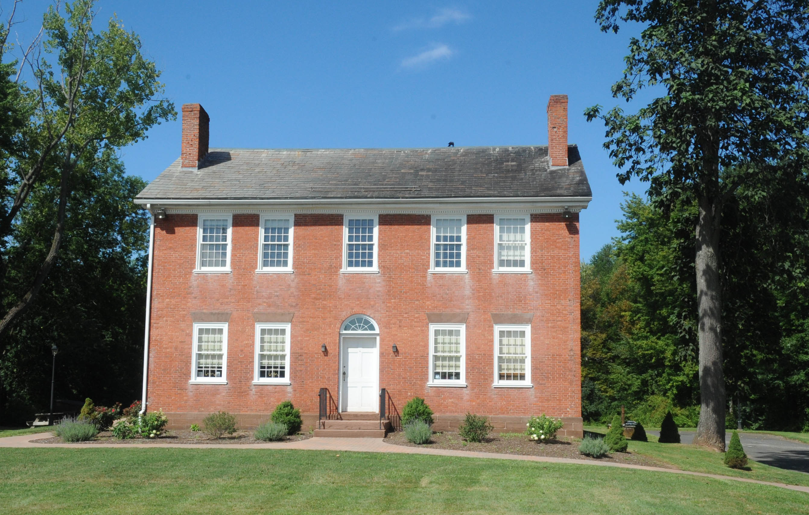 717 Newfield Street, Middletown, Connecticut, U.S. Brick house, built in 1803 by Jacob Pledger who was a farmer; it is now used as an office for a cosmetic dental group (as indicated by a large sign on the front lawn, not shown).